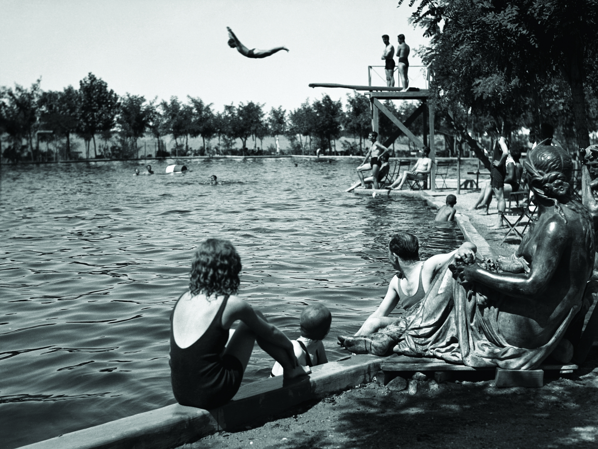 People in Ankara used to come to the Gazi (Ghazi) Forest Farm by cars, buses and the train. During fine weather, they wouldn’t even acknowledge each other and just walk. The small, pretty train station building was built in 1928 and designed by architect Ahmet Burhanettin Bey. During holidays, it was possible to see people having picnics under thick trees. Marmara and Karadeniz (Black Sea) were pools which might have satisfied the need for a sea to some extent. People used to organize rowing and swimming contests between schools. Atatürk Orman Çiftliği Karadeniz Havuzu, 1939 Ankaralılar otomobille, kaptıkaçtıyla, otobüsle ve trenle gelirler Gazi Orman Çiftliği’ne. Güzel havalarda hiçbirine yüz vermez, yürürlerdi. Trenin durduğu küçük, sevimli istasyon binası 1928’te yapılmıştı, Mimar Ahmet Burhanettin Bey’in imzasını taşıyordu. Sık ağaçlar arasında piknik köşeleri oluşuverirdi tatil günlerinde. Marmara ve Karadeniz, deniz hasretini bir derece olsun giderebilen havuzlarımızdır. Spor kulüpleri, okullar arası yüzme, kürek yarışmaları düzenlenirdi.